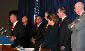 Alexander Introduces Legislation Senator Lamar Alexander (R-TN), joins Senators Salazar (D-CO), Pryor (D-AR), Gregg (R-NH), Lincoln (D-AR), Casey (D- PA) and Bennett (R-UT) to introduce legislation that would make the Baker-Hamilton Iraq Study Group recommendations the basis for future U.S. strategy in Iraq. At the press conference, the senators took questions about the bipartisan legislation that would It would get the United States out of the combat business in Iraq, and into the support, training and equipping business as soon as honorably possible.